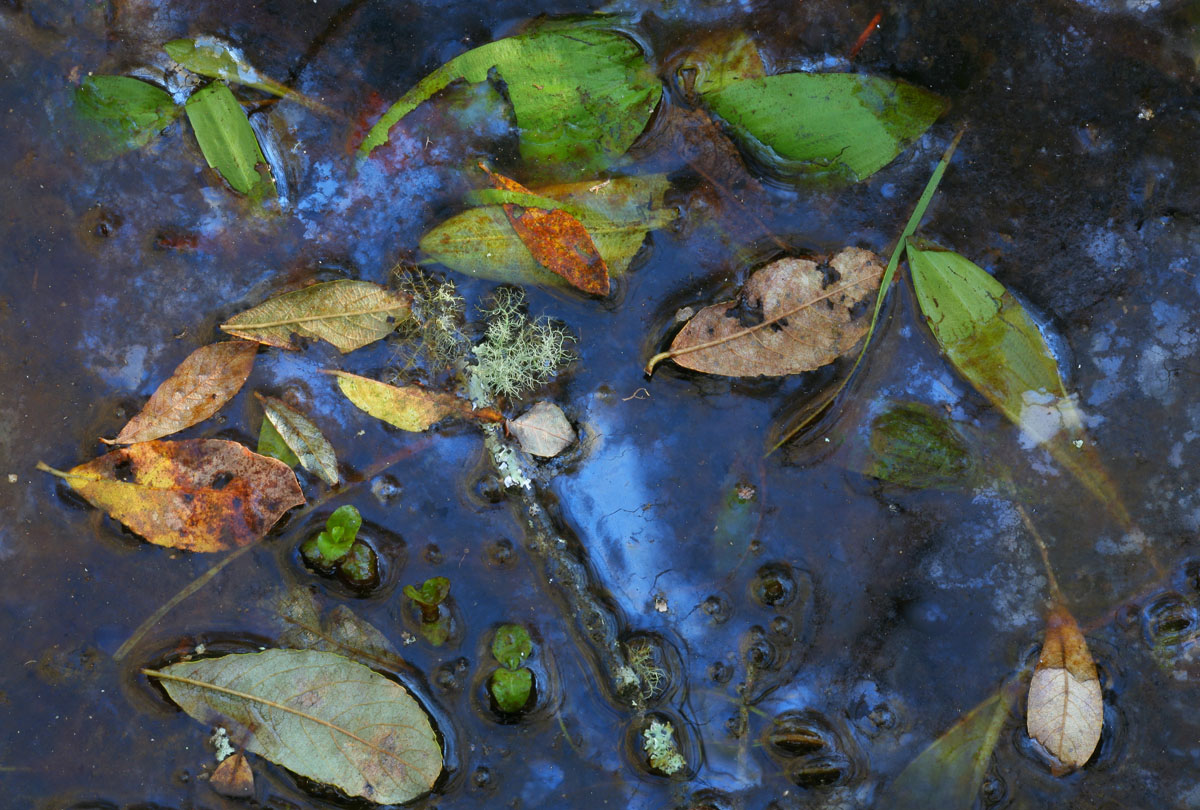 Iridescent mud in a swamp located in the south west of france.